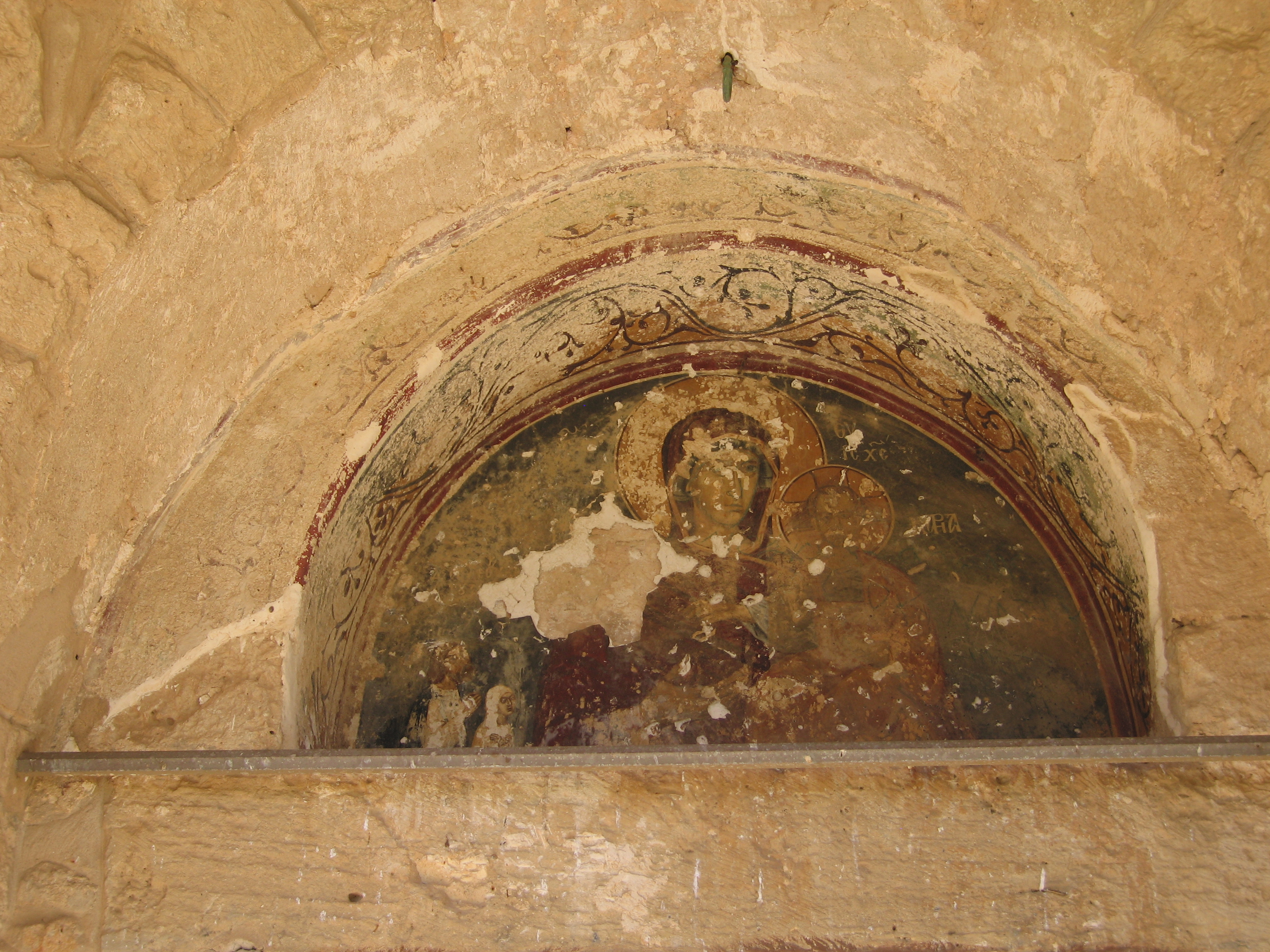 Panagia Kanakaria church in Lythrangomi (Boltaşlı), Karpass Peninsula, Northern Cyprus